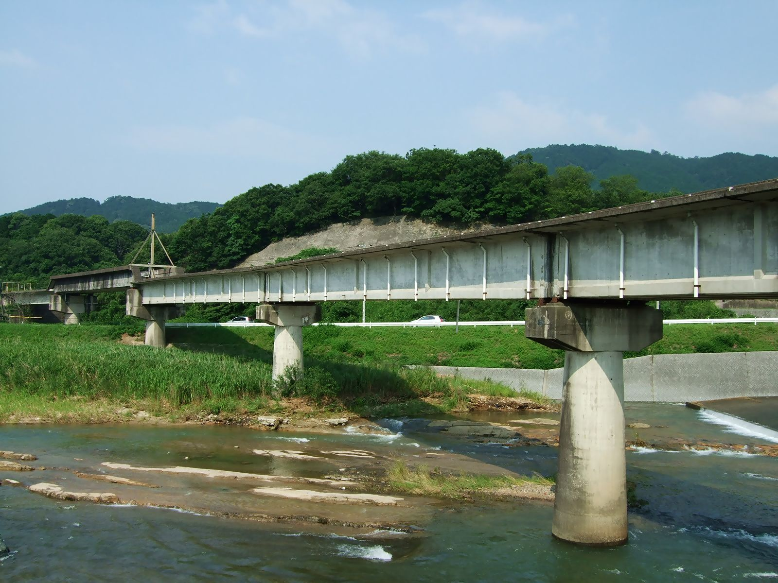 The ruin of Yusubaru Line(between Fukuda Station and Oto Station)